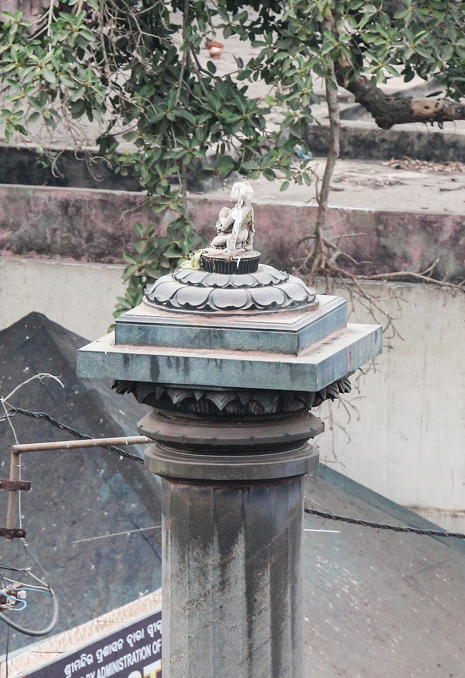 Statue of Arun, the charioteer of the Sun God Surya, on the top of the the Arun Stambha in front of the main gate of the Jagannath Temple, Puri, India